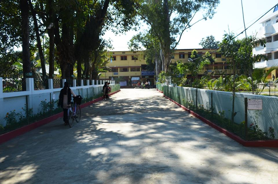 College Way